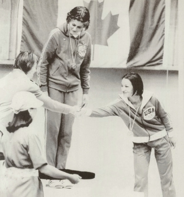 1976 Olympic Goal Medalists in Diving Jennifer Chandler Gold Press Photo